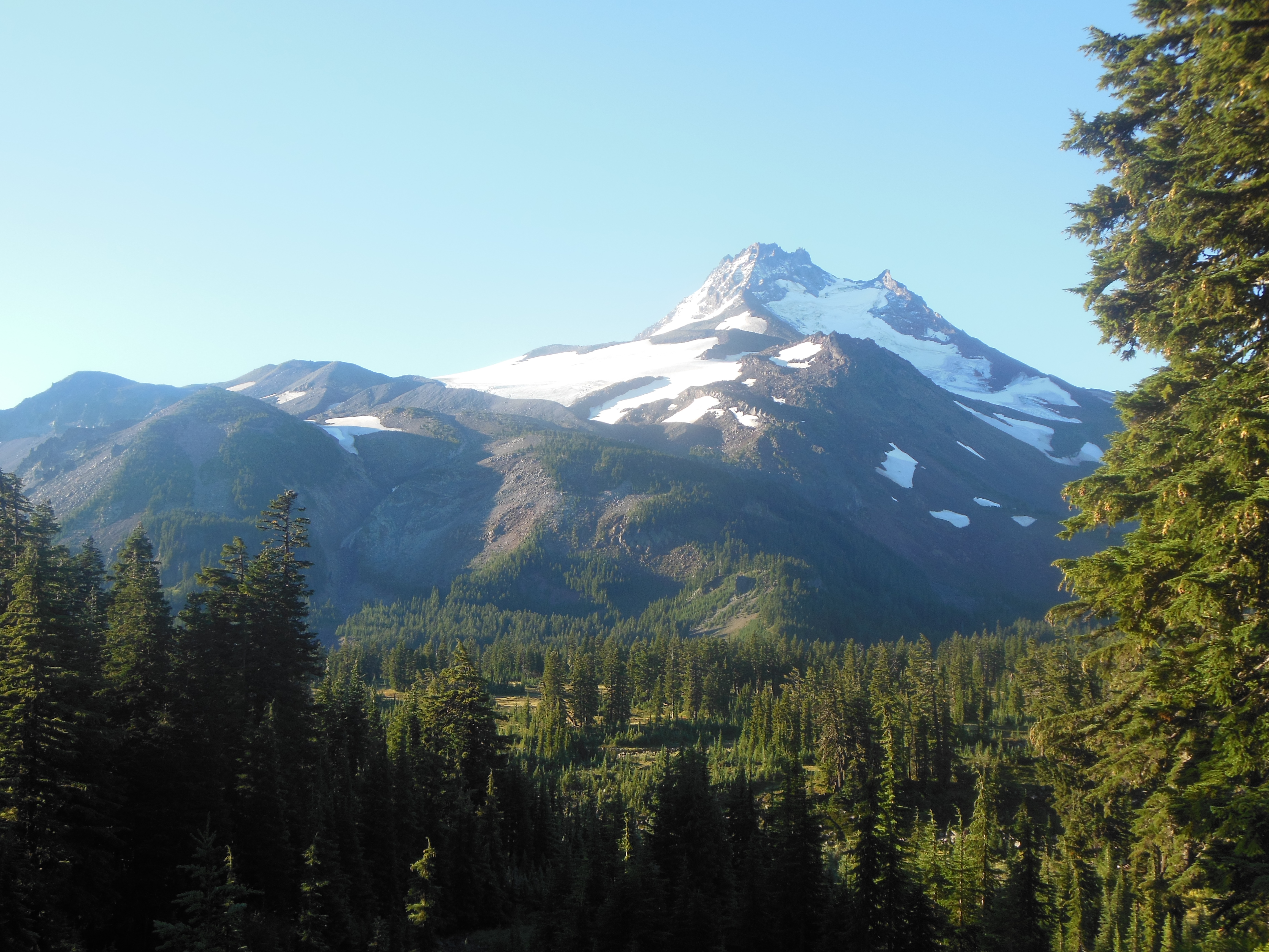 Mount Jefferson from Jefferson Park, which is north of the mountain, in the morning in Oregon, USA